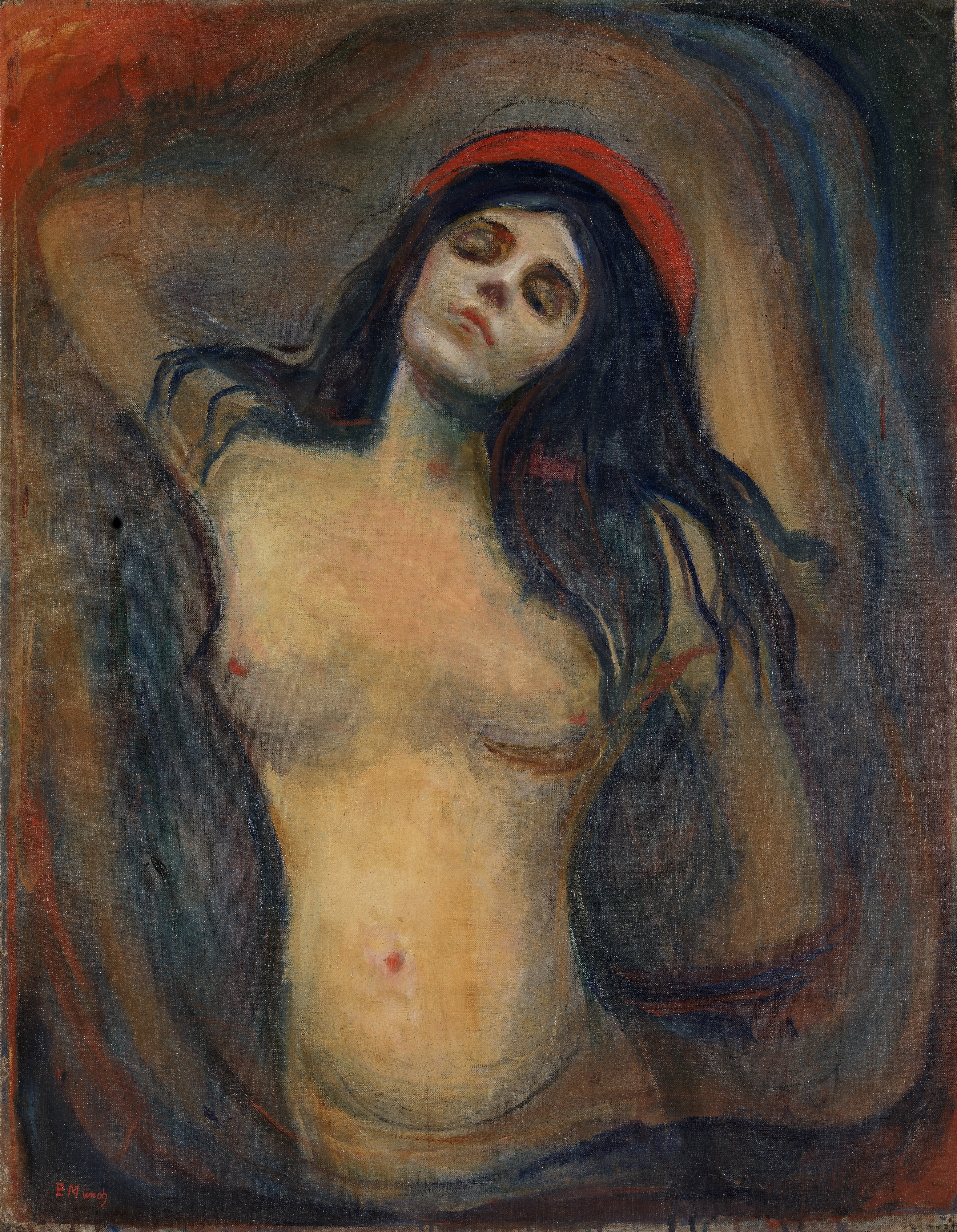 Madonna, oil painting by Edvard Munch, 1894-95